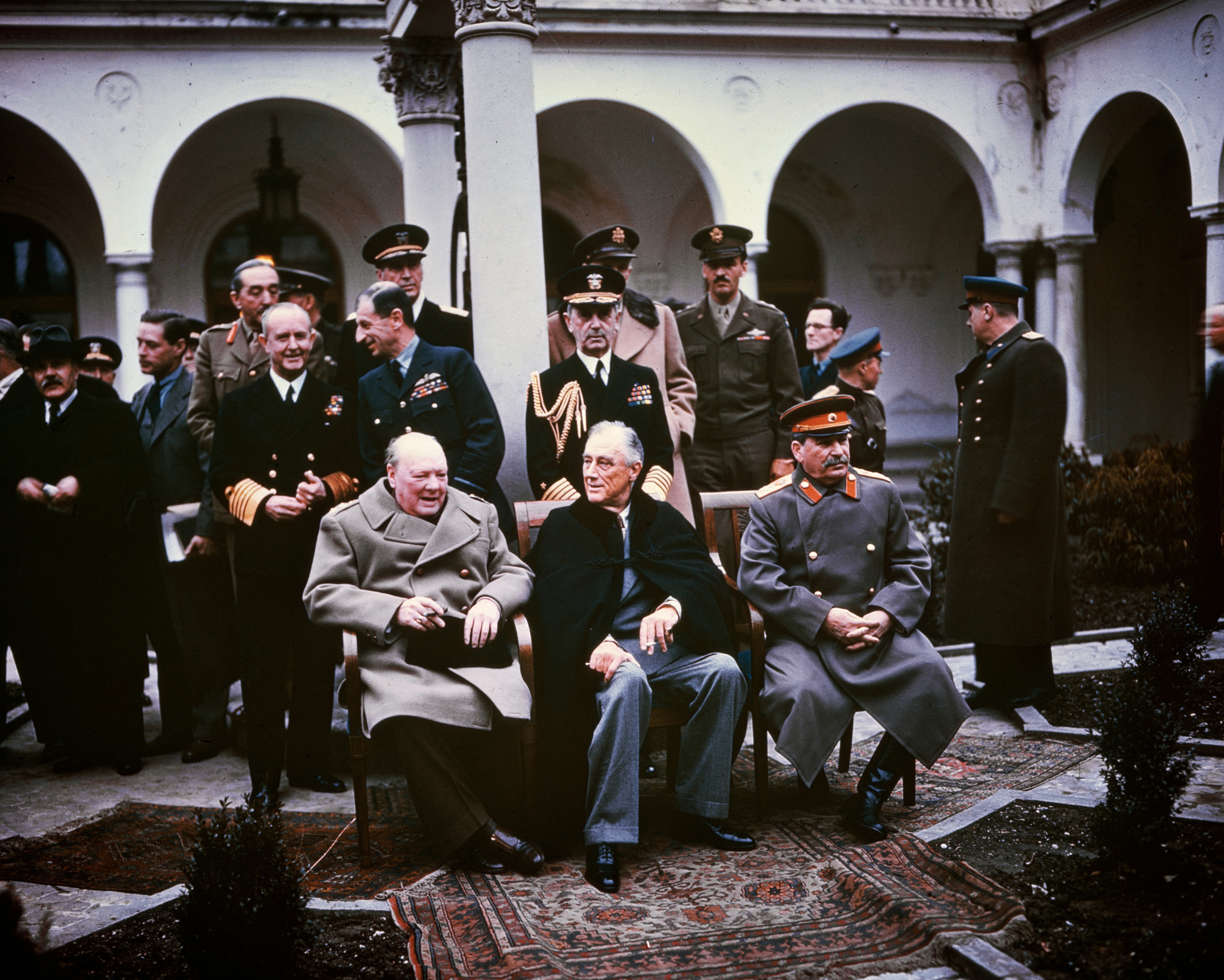 Picture of the Yalta conference